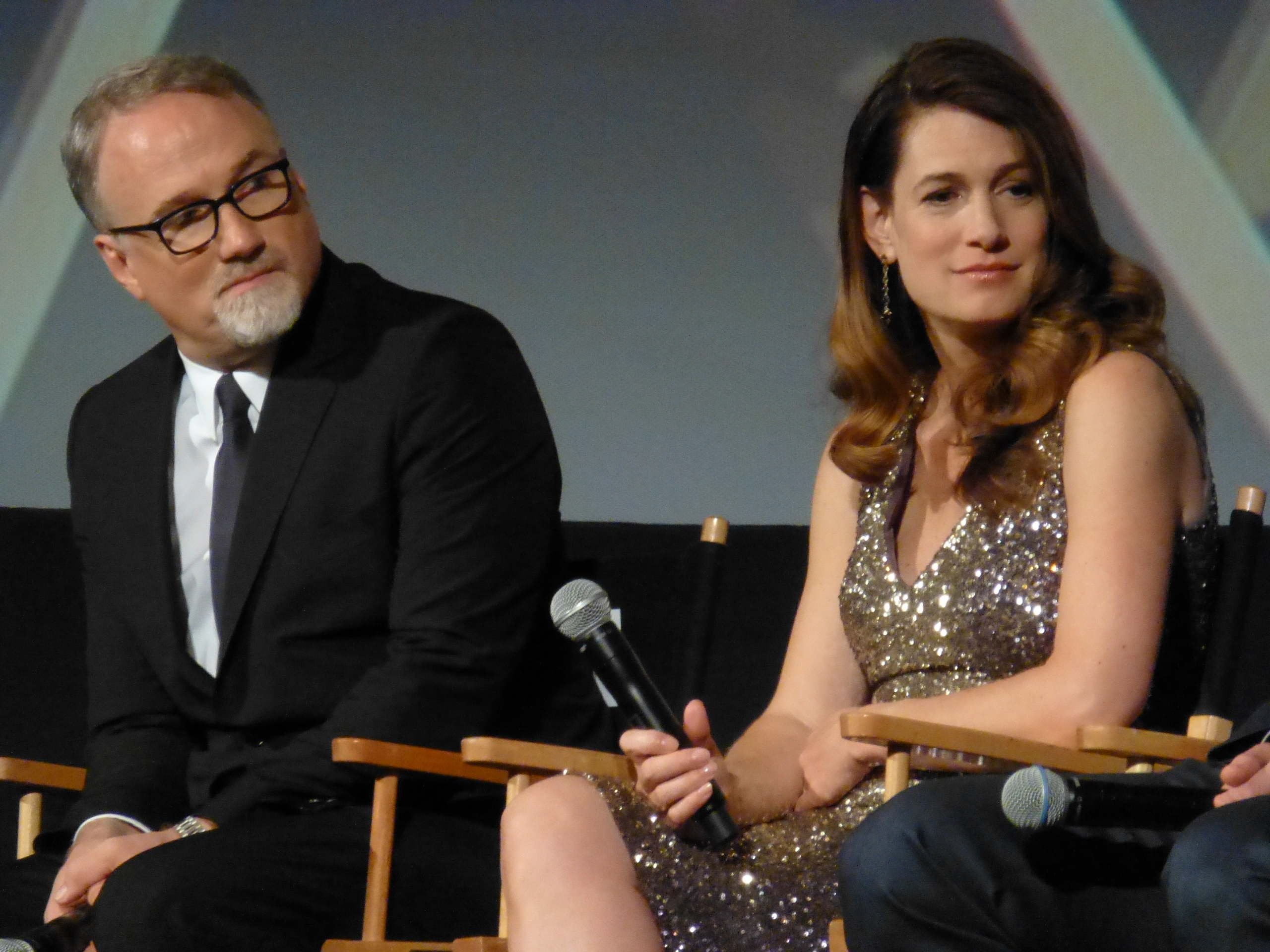 Gone Girl Premiere at the 52nd New York Film Festival, October 2014.